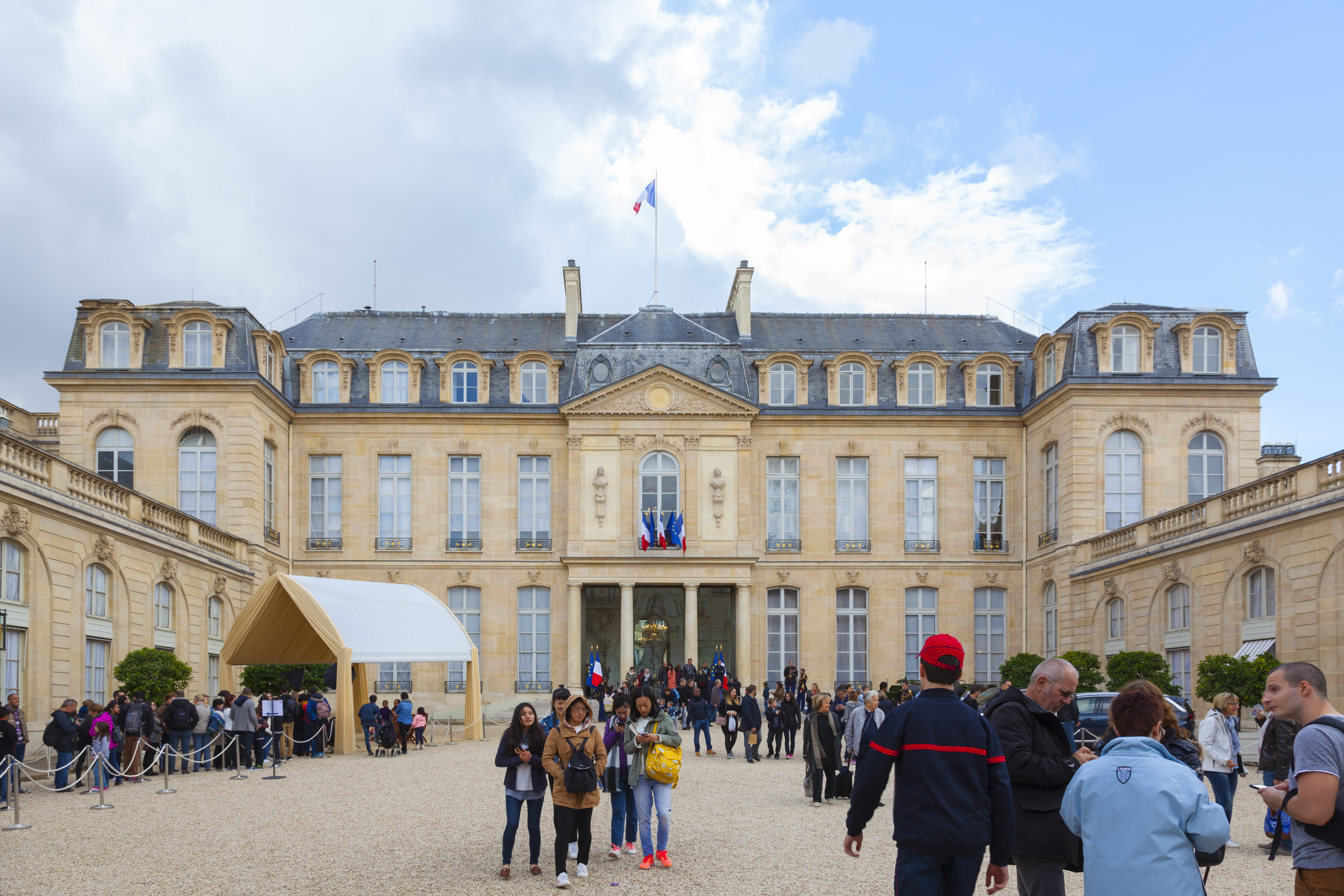 55, Rue du Faubourg Saint-Honoré, 75008, Paris